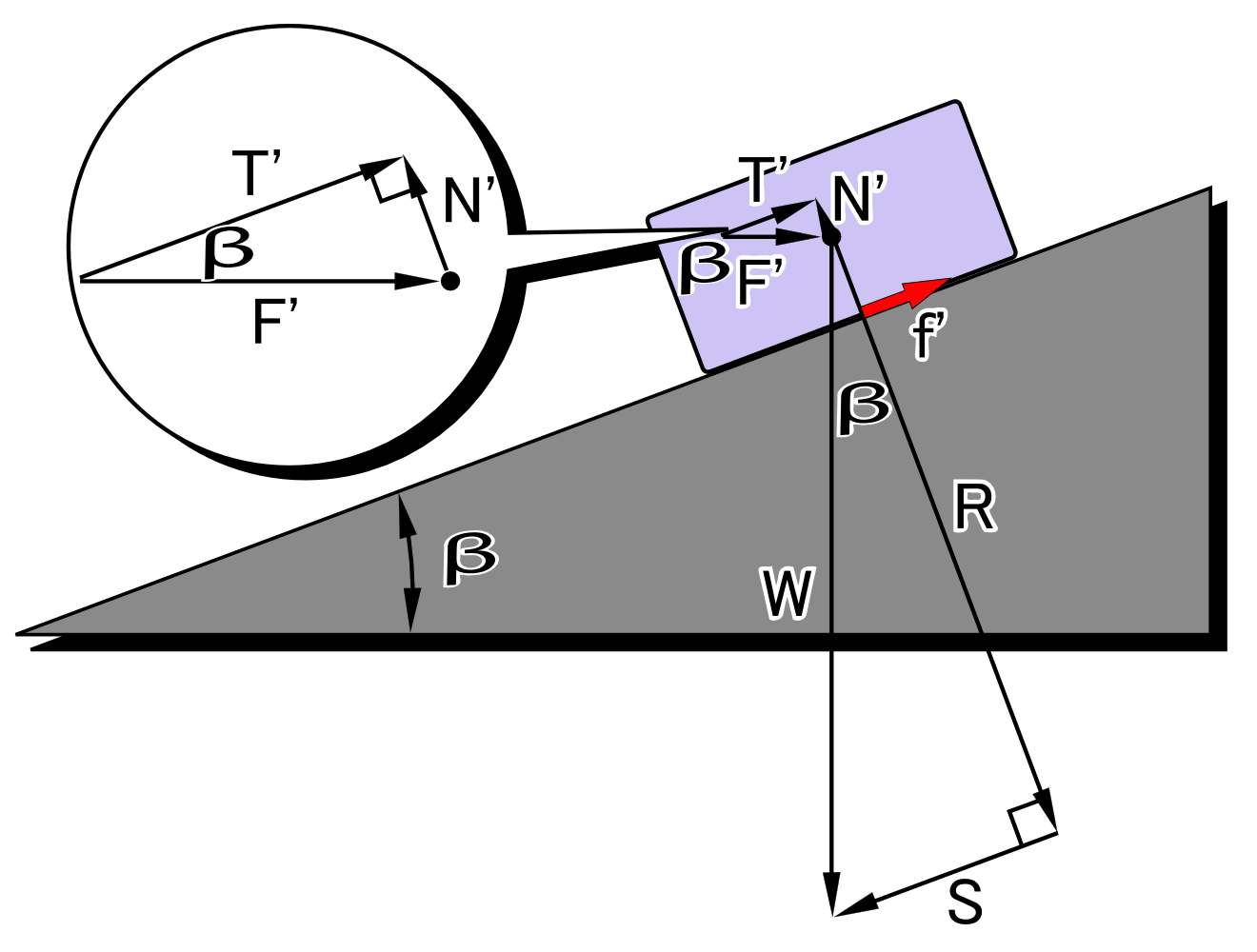 Screw (bolt) 03B-J